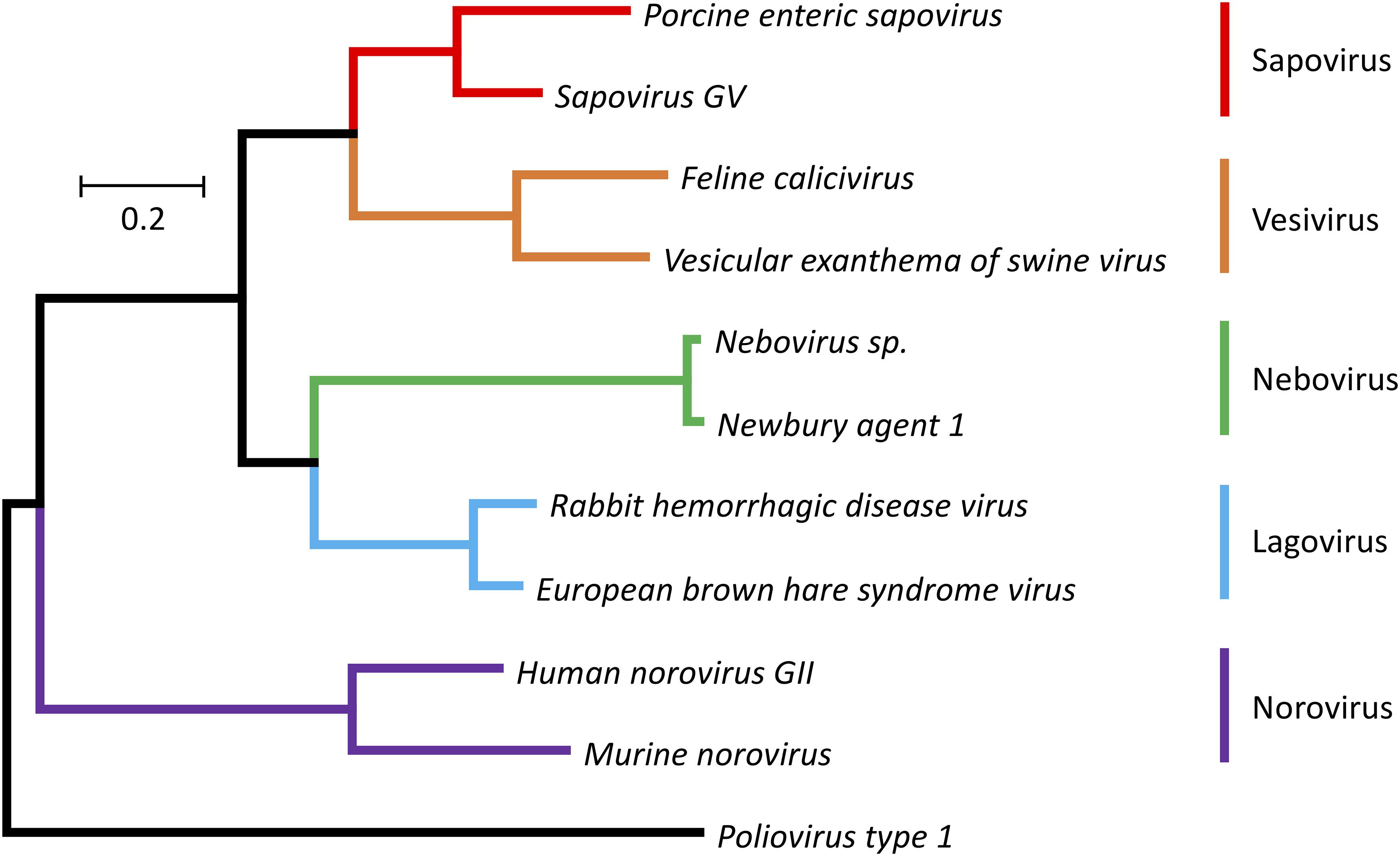 Phylogenetic tree for RdRp protein sequences of the family Caliciviridae and Poliovirus type 1 (Mahoney strain). The evolutionary history was inferred using the Maximum Likelihood method (Jones et al., 1992). The tree is drawn to scale, with branch lengths representing the number of substitutions per site. The analysis involved amino acid sequences from 11 caliciviruses [Porcine enteric sapovirus, A0A348BR93 (UniProt); Sapovirus GV, NP783310 (NCBI Protein); Feline calicivirus, NP786896 (NCBI Protein); Vesicular exanthema of swine virus, AYN44917 (NCBI Protein); Nebovirus sp., YP529897 (NCBI Protein); Newbury agent 1, NP740332 (NCBI Protein); Rabbit haemorrhagic disease virus, NP786902 (NCBI Protein); European brown hare syndrome virus, D0UGI3 (UniProt); Human norovirus GII, AWB14625 (NCBI Protein); Murine norovirus, P03300 (UniProt)] and a poliovirus [Poliovirus type 1, Q6IX02 (UniProt)]. Evolutionary analyses were conducted using the MEGA7 program package (Kumar et al., 2016). Different colors are used for different calicivirus genera.